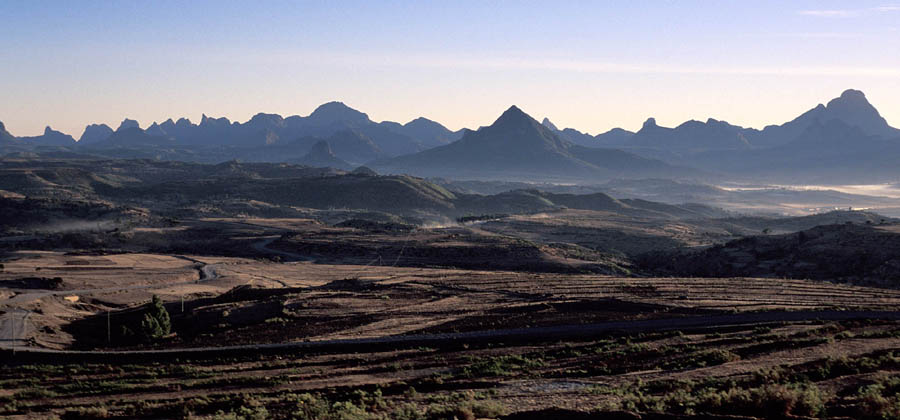 The jagged mountains at Adwa, Tigray region, Ethiopia